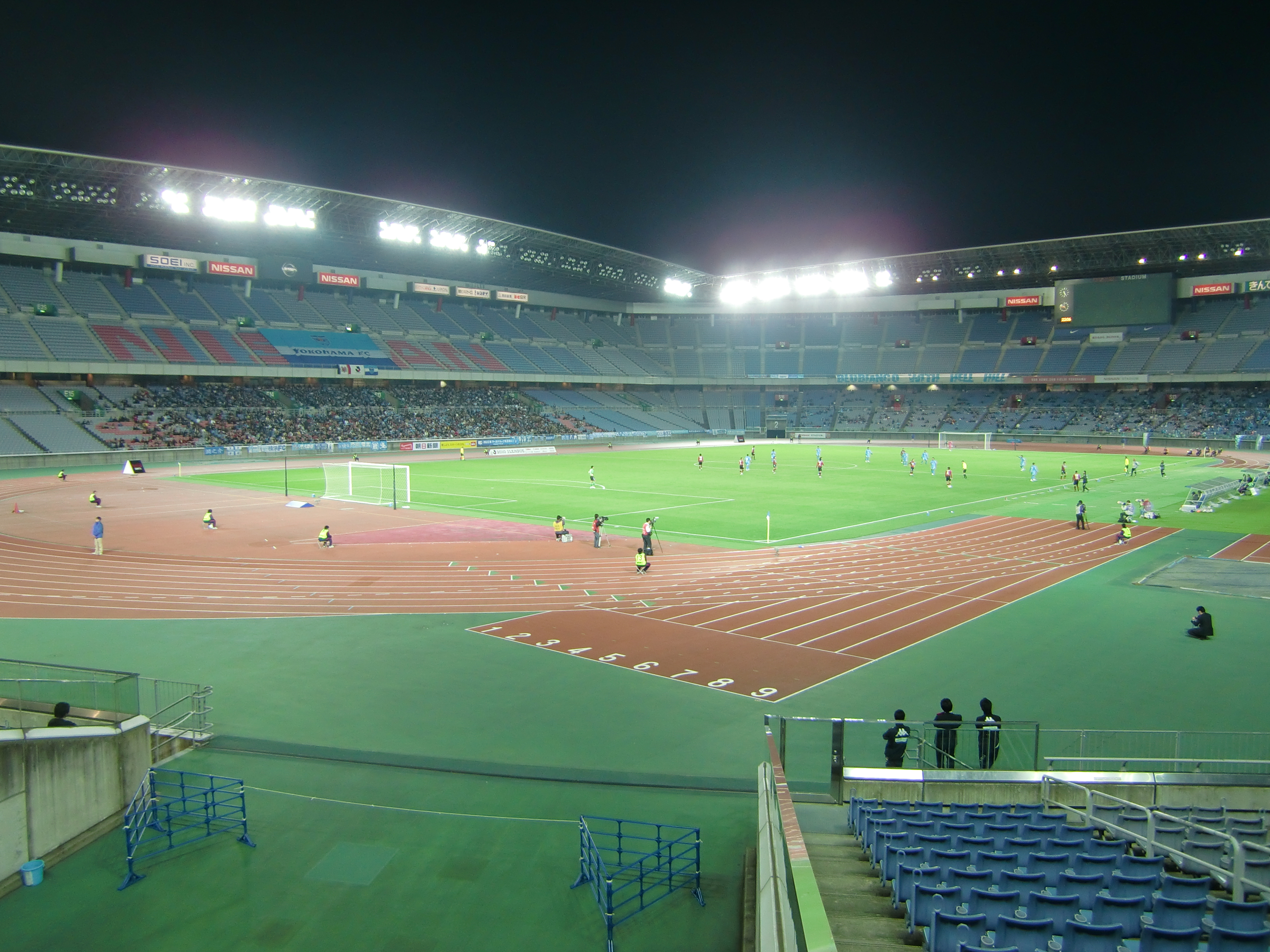 Nissan Stadium